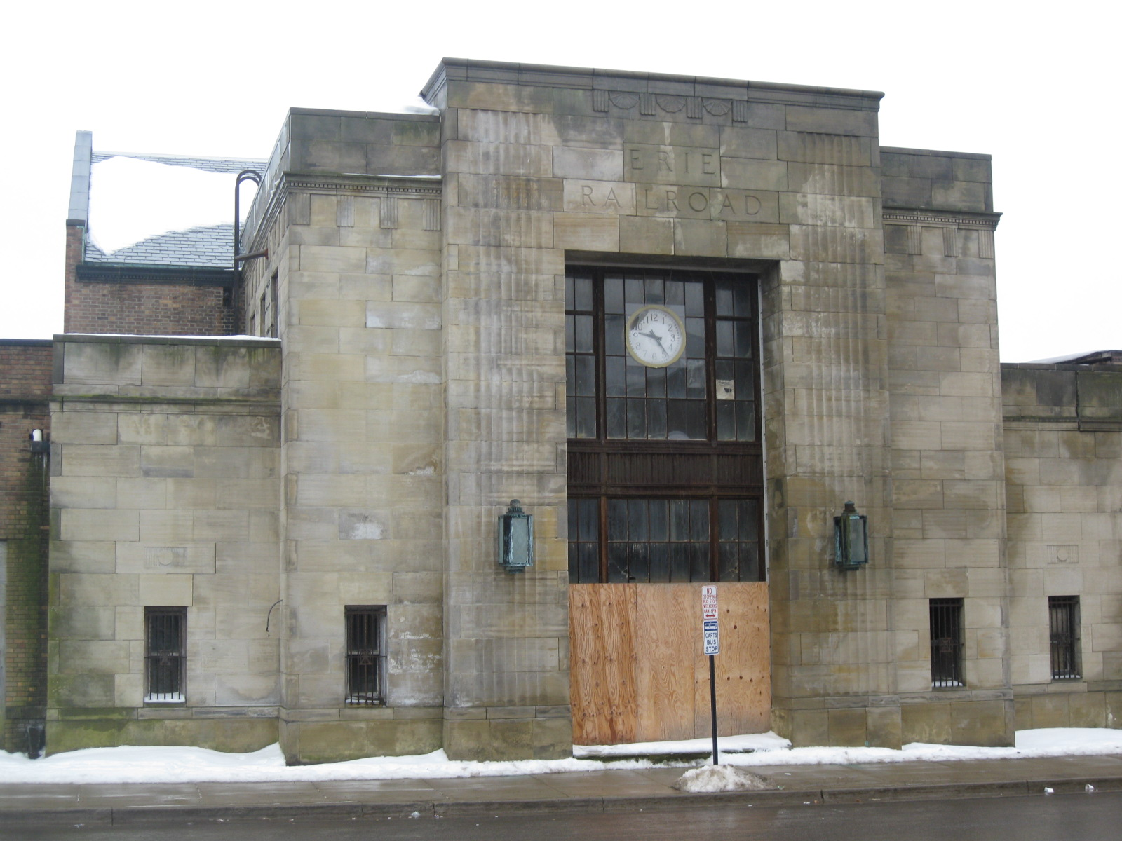 Jamestown, New York